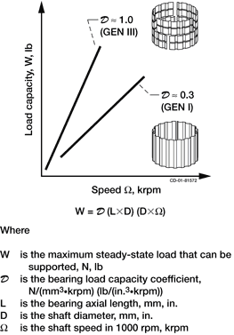 Floil bearing load capacity